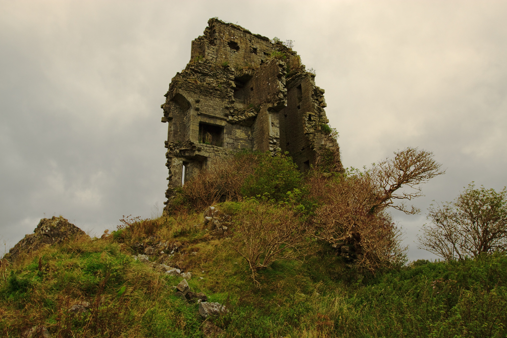 Castles of Munster: Derryowen, Clare (2) View from the opposite side showing part of what remains of the interior. A fireplace and part of an arched doorway can be seen on the left.